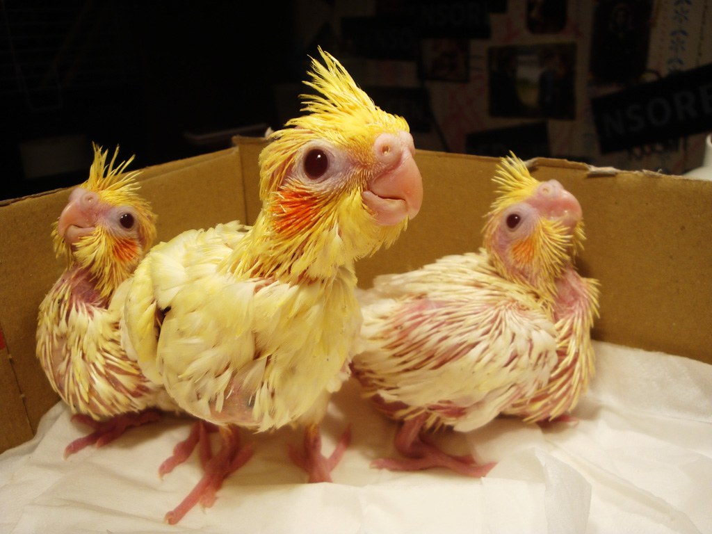 Three Cockatiel chicks (100 gm, 94 gm, and 92 gm and ages about 3 weeks to 3.5 weeks). They were initially parent reared and then hand reared.